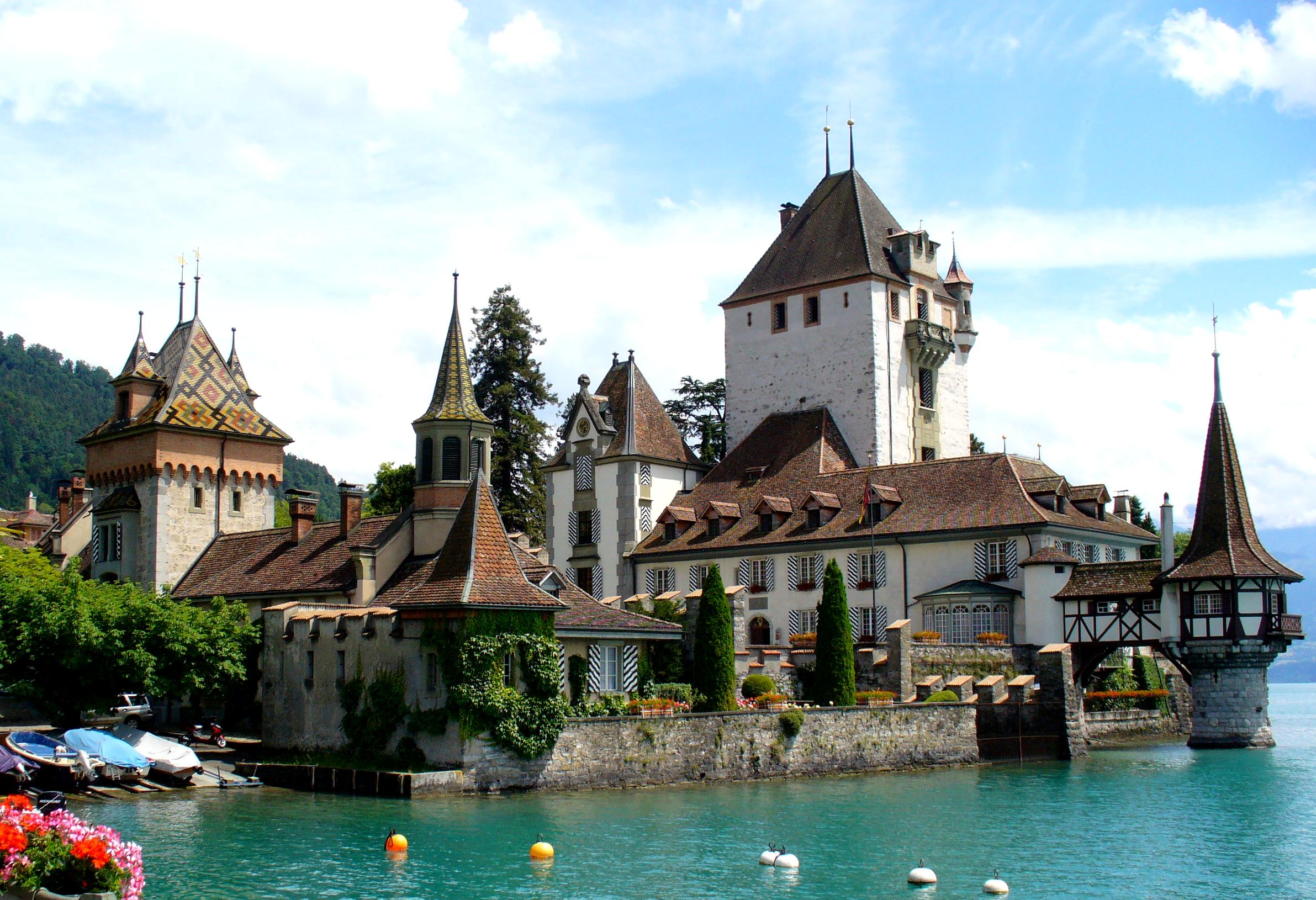 Schloss Oberhofen, Berner Oberland